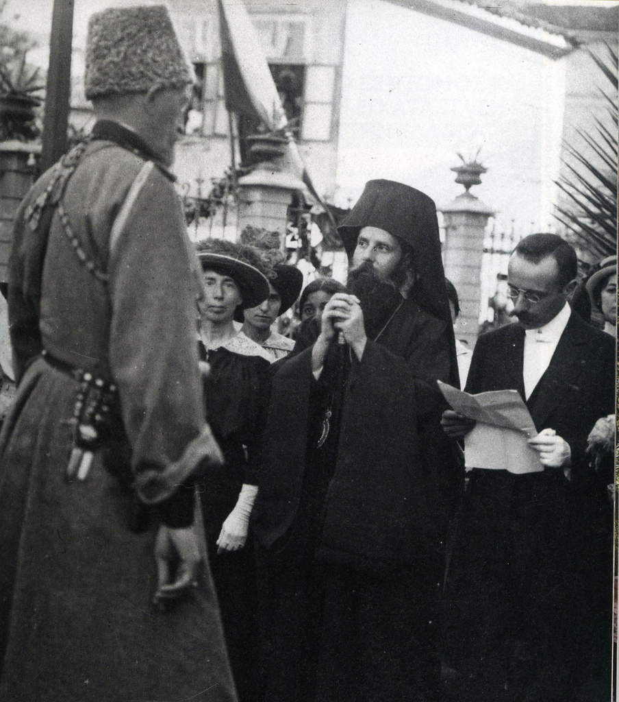 Trabzon Mayor Ioannis Triftanidis welcomed the Grand Duke Nikolay Nikolaevich, entered the city with Russian troops. In the center Greek Orthodox metropolitan bishop Chrysantos, July 1916.